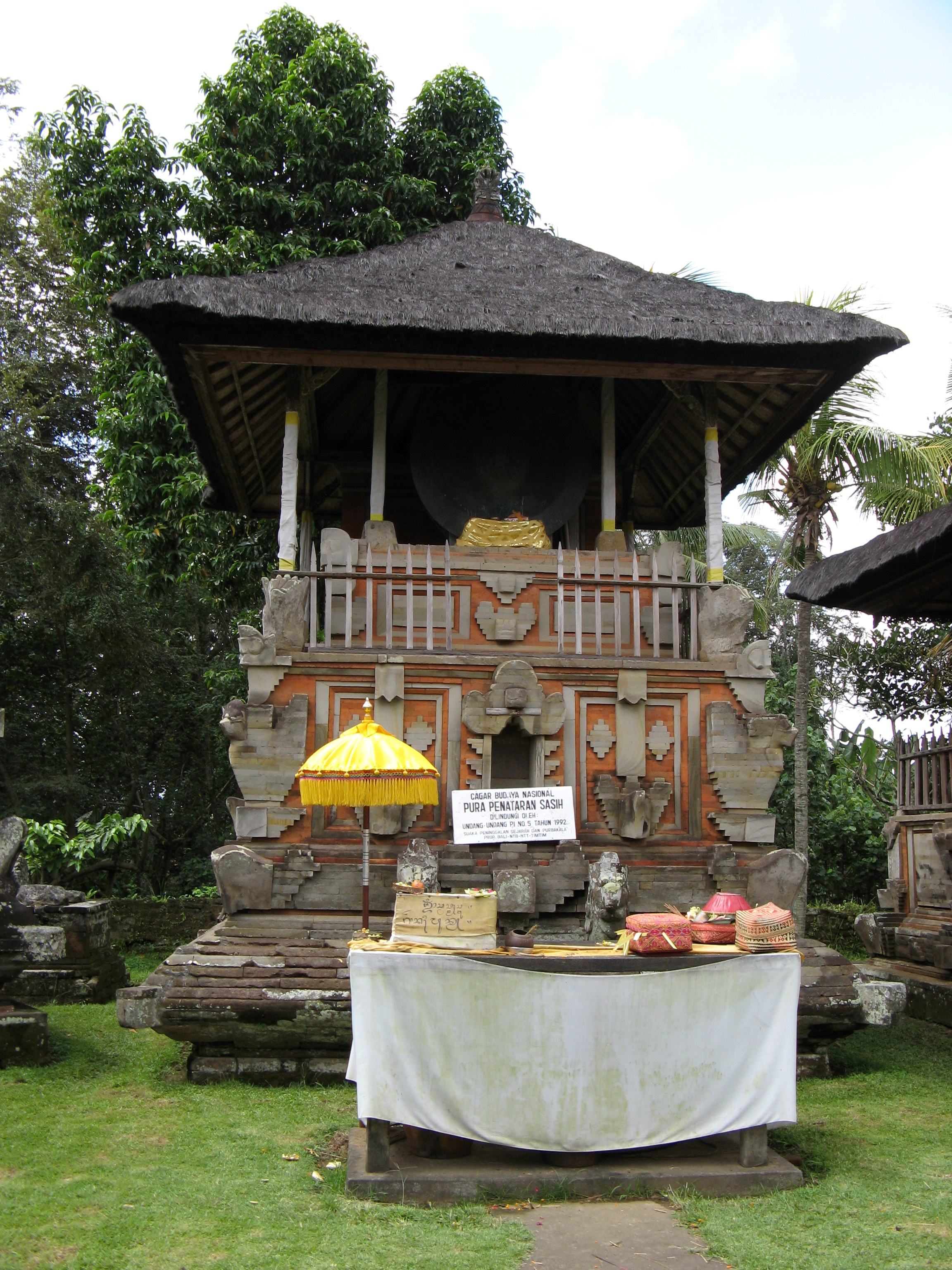 A large and ancient bronze drum, now called the "Moon Of Pejeng" after a piece of local folklore, is housed in this pavilion. It is only partly visible, and difficult to view adequately, since the visitor is only allowed to see it from the lawn below